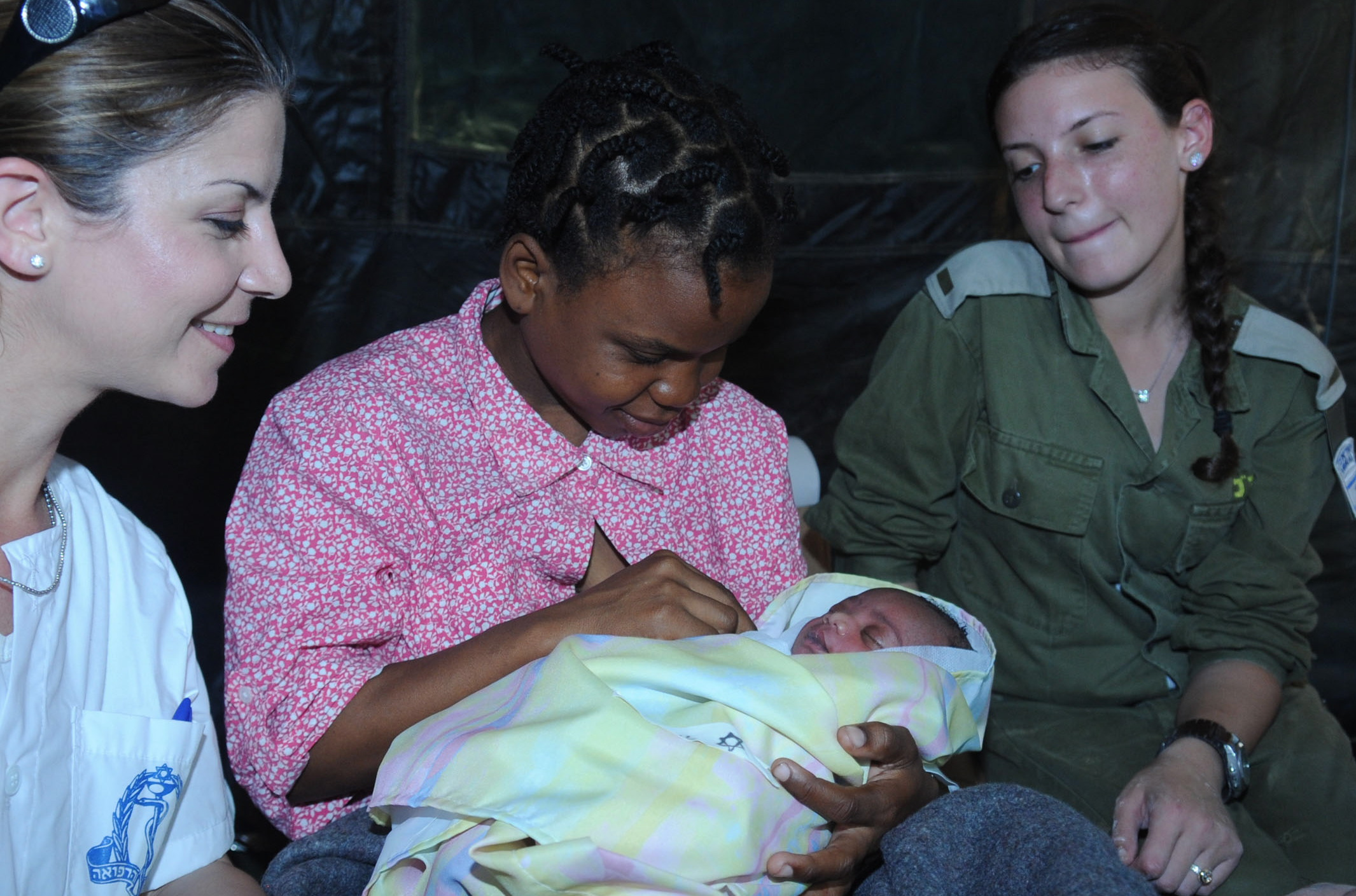 January 17, 2010. Picture of the first baby delivered at the Israel Defense Forces Field Hospital in Port-au-Prince, Haiti. The mother arrived at the hospital eight months pregnant escorted by a relative, and shortly thereafter, she gave birth to a healthy boy whom she named Israel. Video can be seen at: After the devastating earthquake which struck Haiti in January 2010, Israel sent an aid delegation of over 250 personnel to help with search and rescue efforts and establish a field hospital in Port-au-Prince.